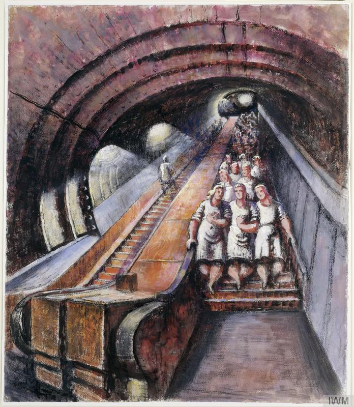 Crowds of women factory workers in white overalls descend an escalator in the London Underground